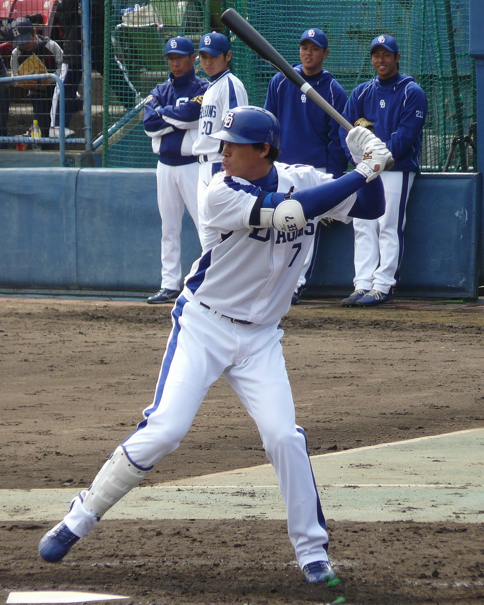 Lee Byung-Kyu